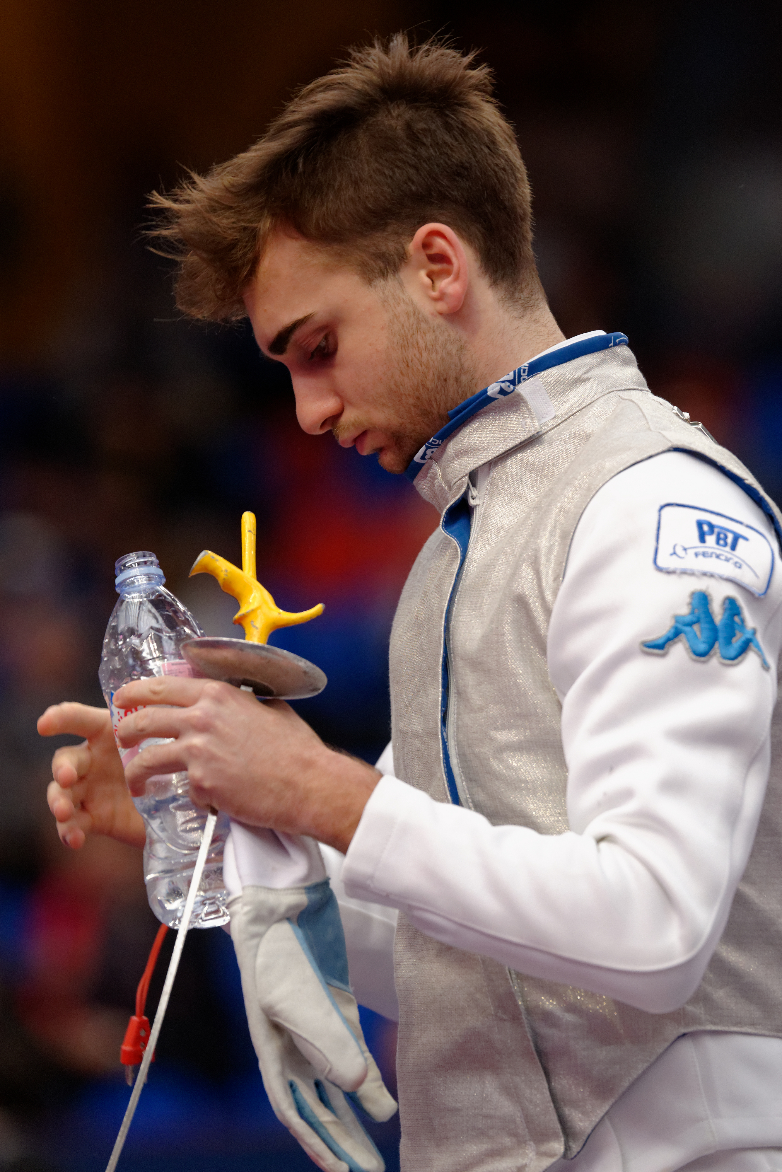 Italy's Daniele Garozzo at the individual event of the 2015 Challenge International de Paris, a men's foil World Cup competition.